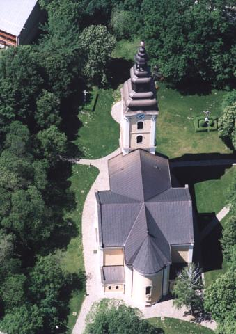 hajdúdorog - temple, Hungary, aerialphotography